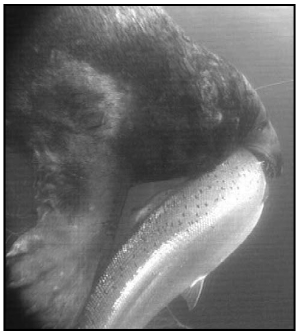 Halichoerus grypus thieves a salmon from a fish trap (the Baltic Sea)